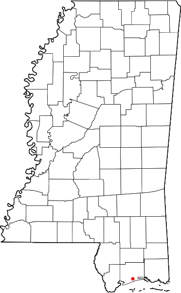 Gulfport, Mississippi location map; created with the GIMP. Made by User:Acntx. Adapted from Wikipedia's Mississippi County Maps.